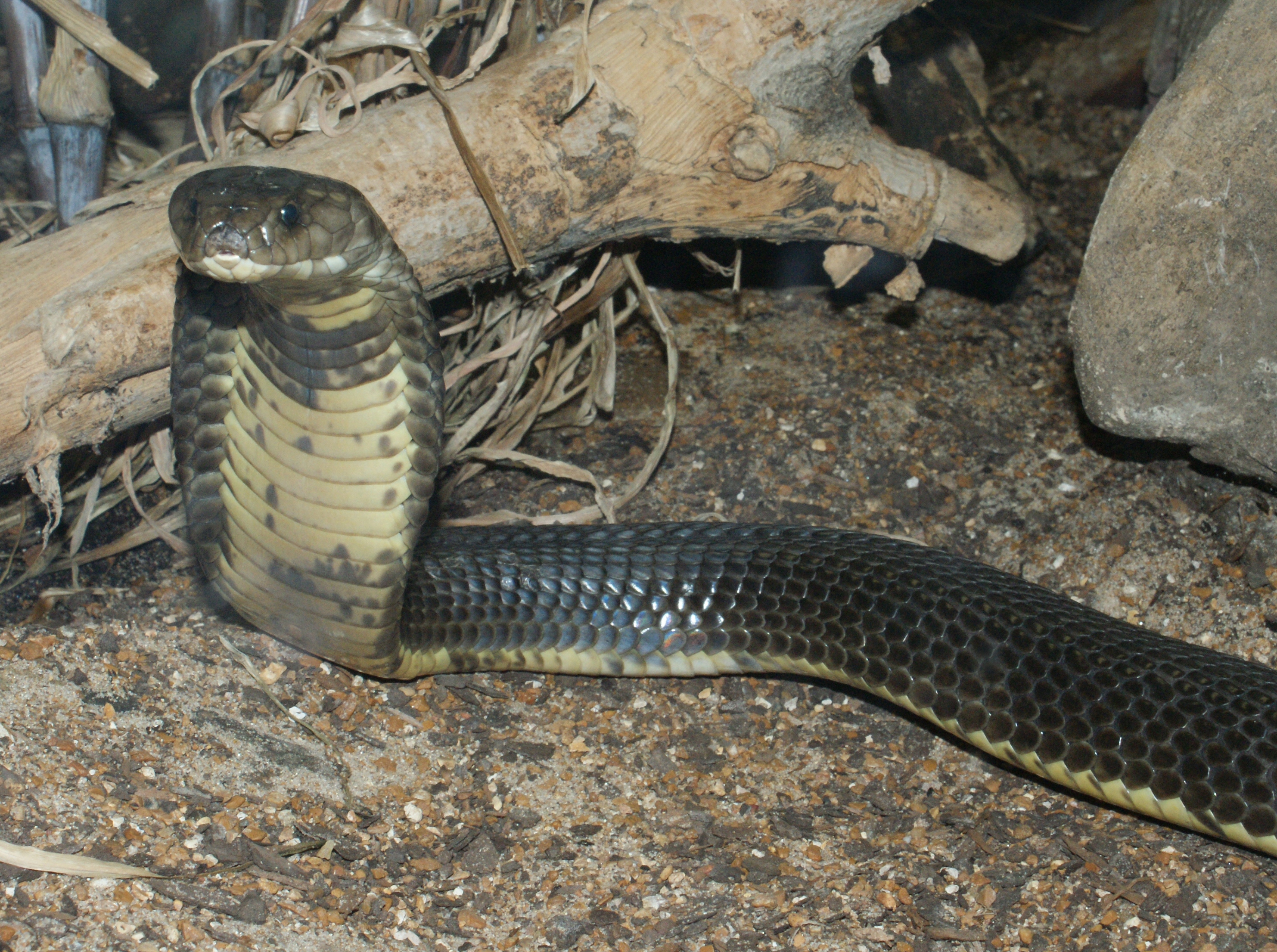 Caspian cobra (Naja oxiana)